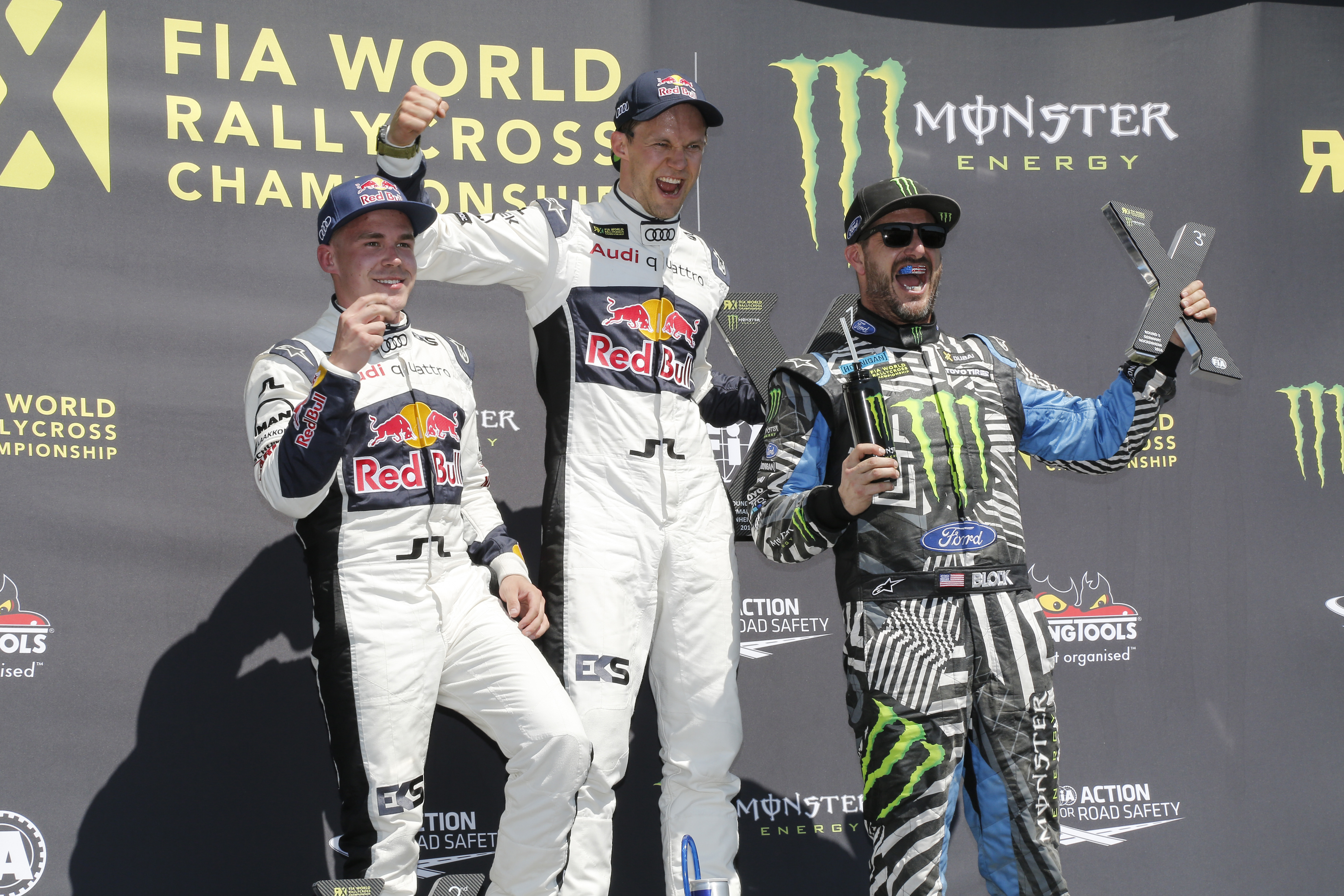 Worldwide Copyright: EKS/McKlein